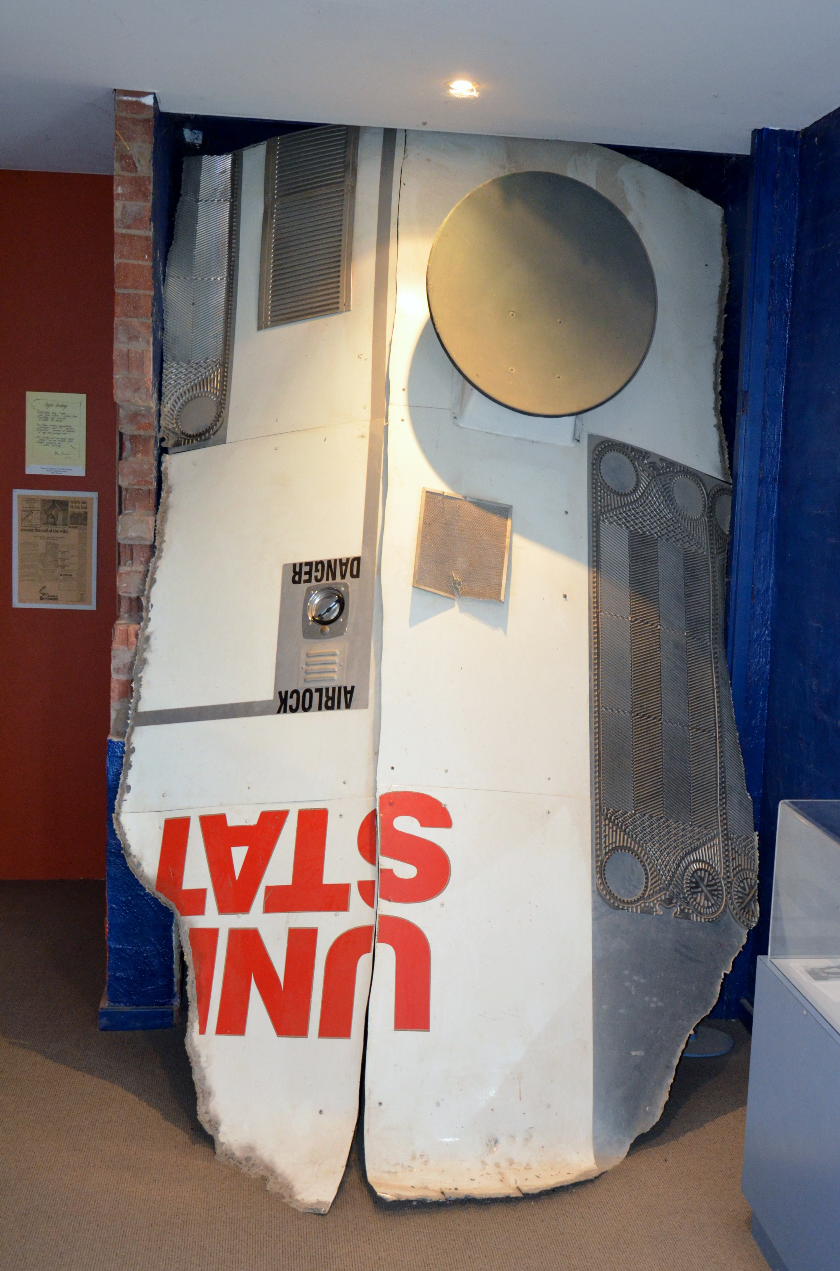 Some replica Skylab debris, on display at the Balladonia Museum, part of the roadhouse at Balladonia, Western Australia